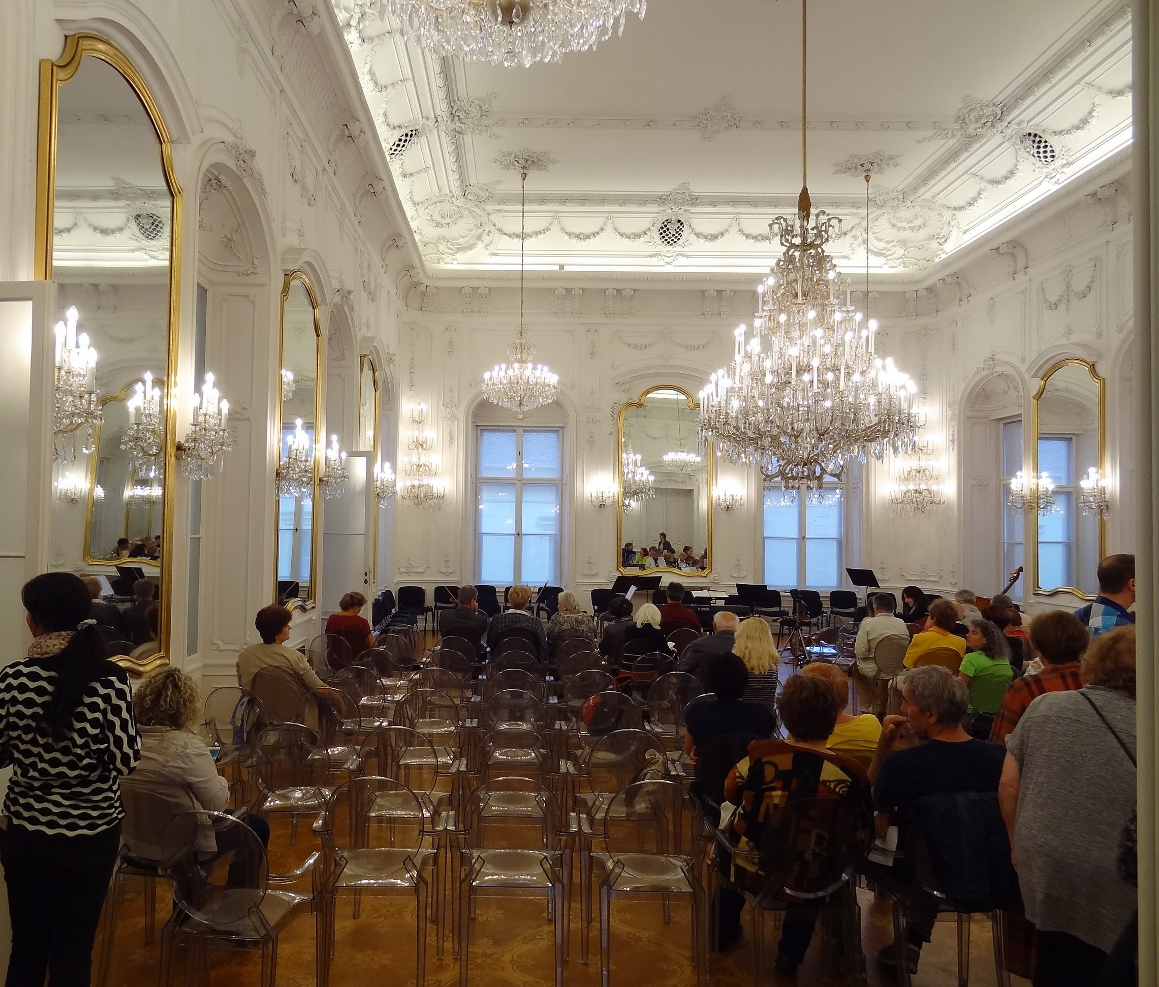 Former Festetics Palace, Budapest. Today the Andrássy University, interior